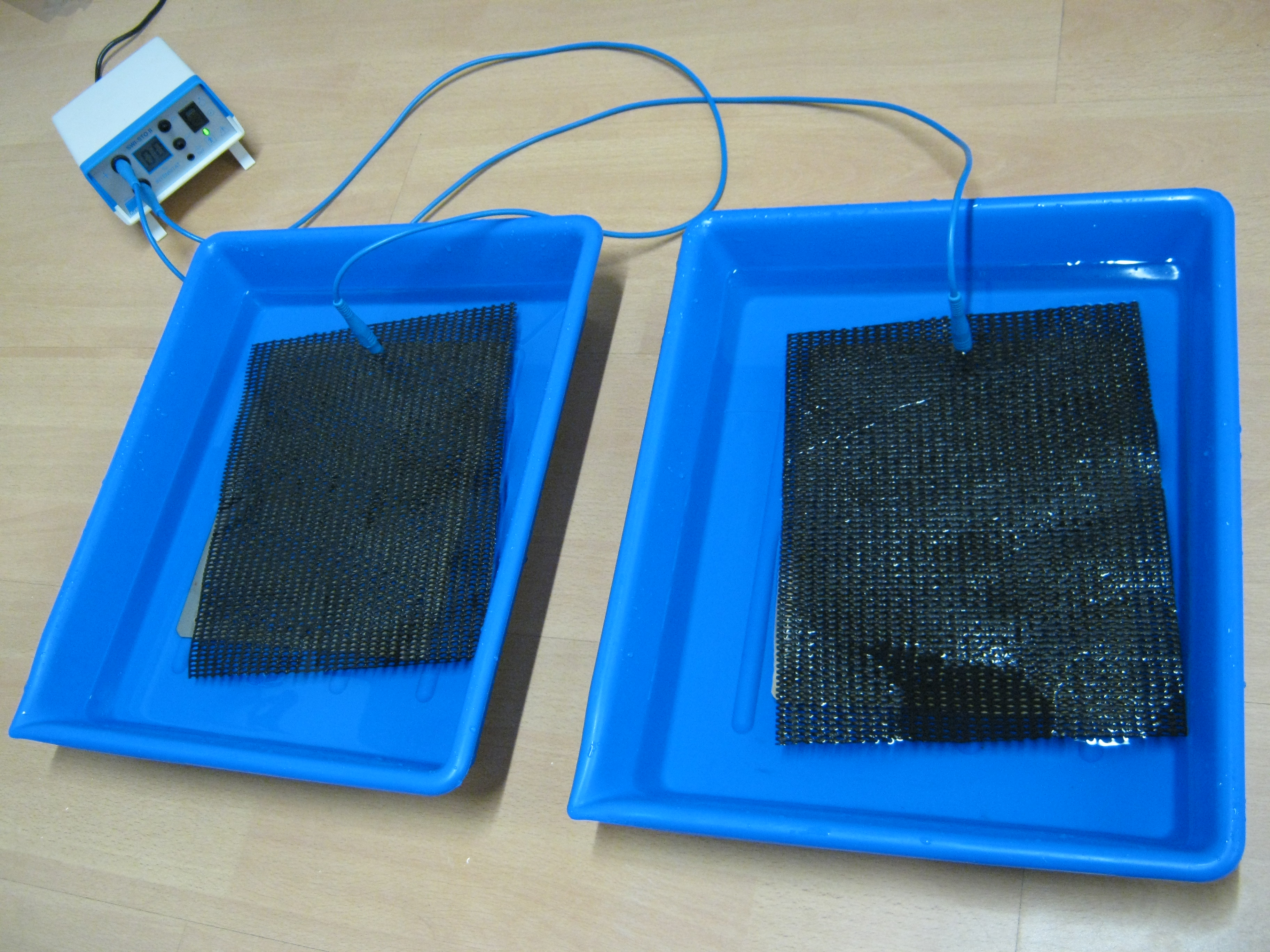 Leitungswasseriontophorese